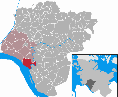 This map shows the area of the municipality of Wewelsfleth (dark red) in the Kreis (district) Steinburg (grey), Schleswig-Holstein, Germany.